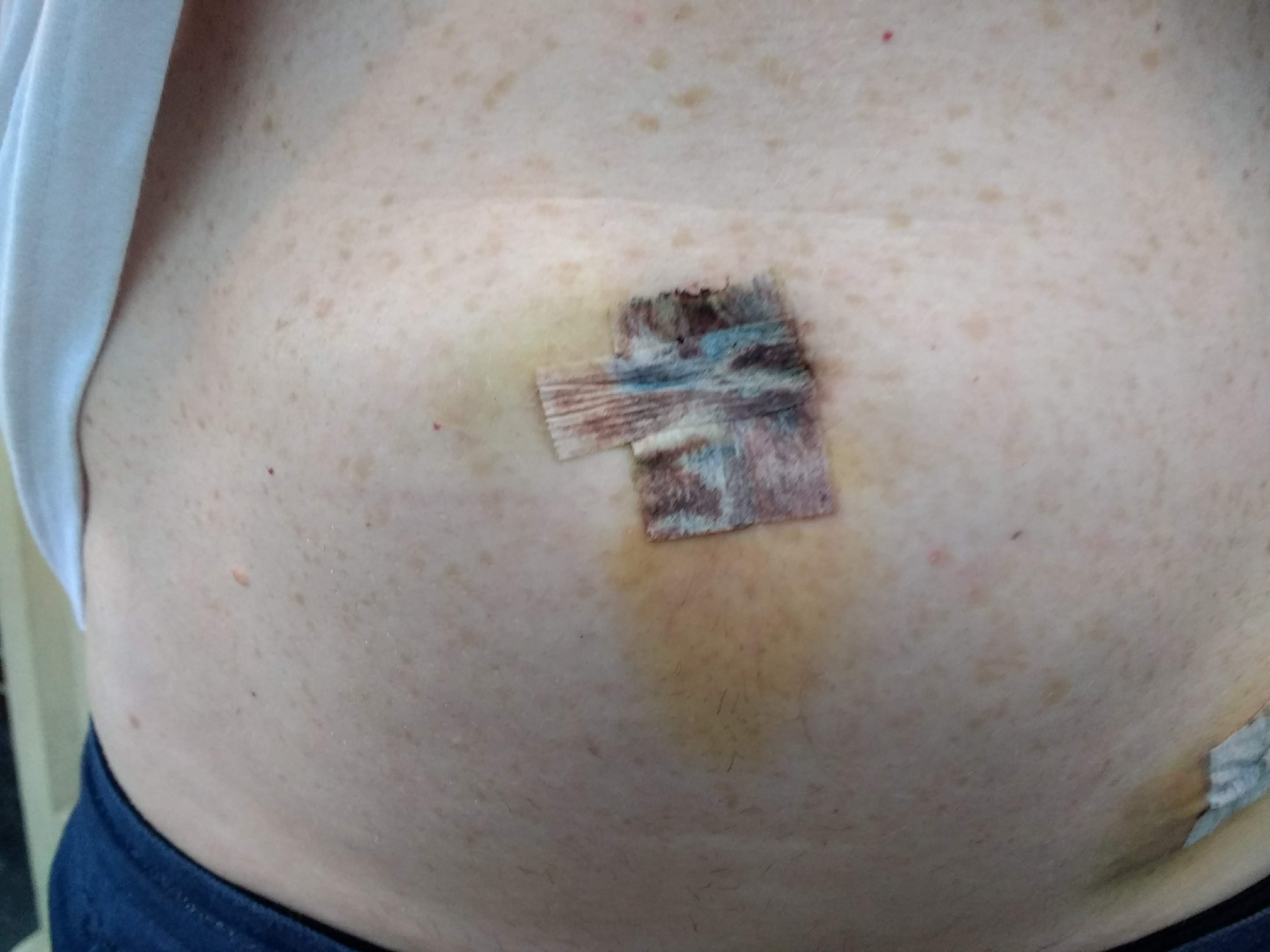 The navel of an adult male a few days after a laparoscopic procedure to remove the appendix.